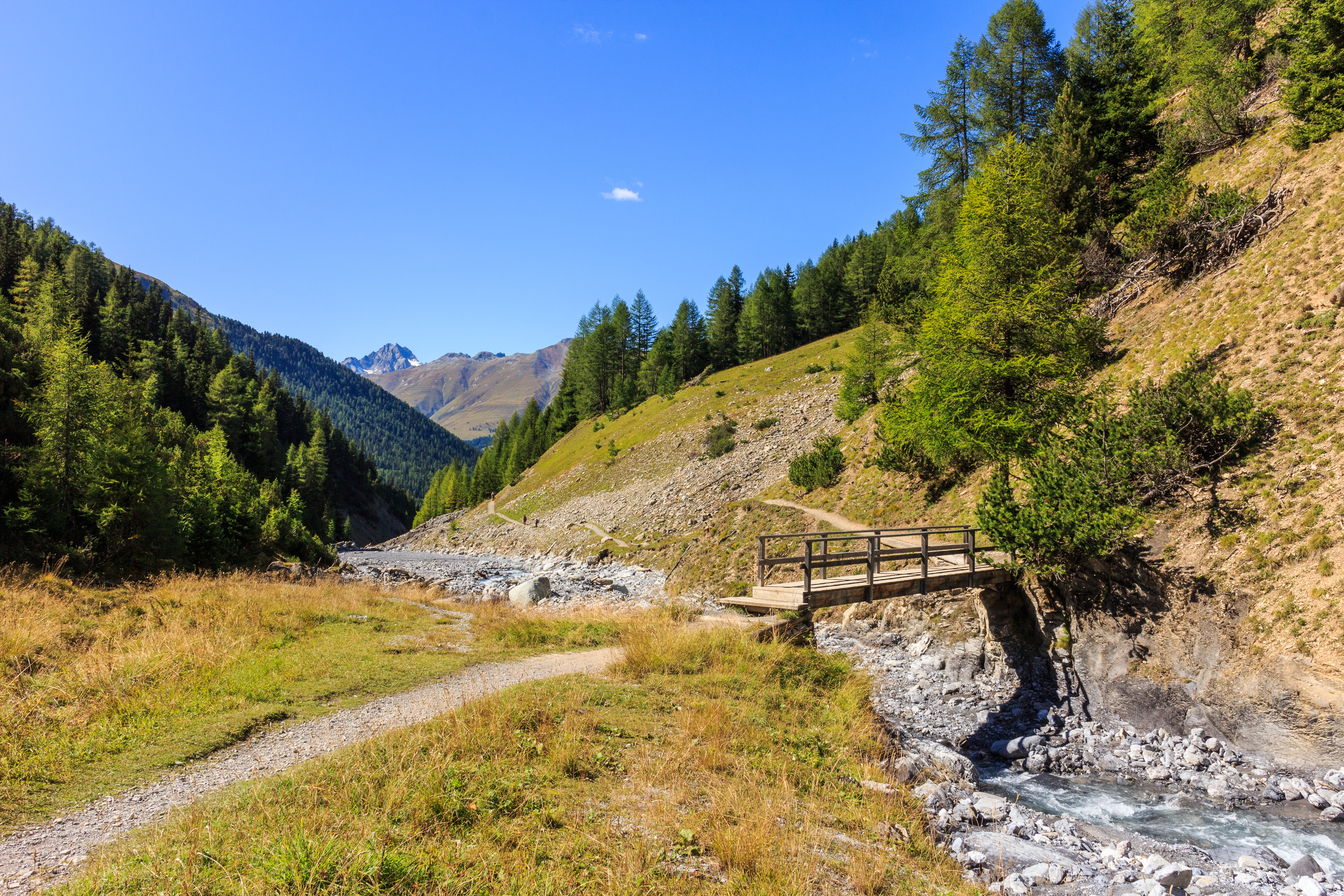 Mountain tour from Prasüras, through the Val Trupchun to Alp Purcher in the Swiss National Park. Bridge over the Ova da Varusch.